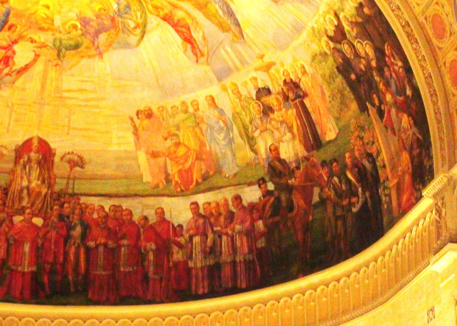 A closer look at the painting on the ceiling...if you are familiar with La Difesa you know about the "guy on the horse".